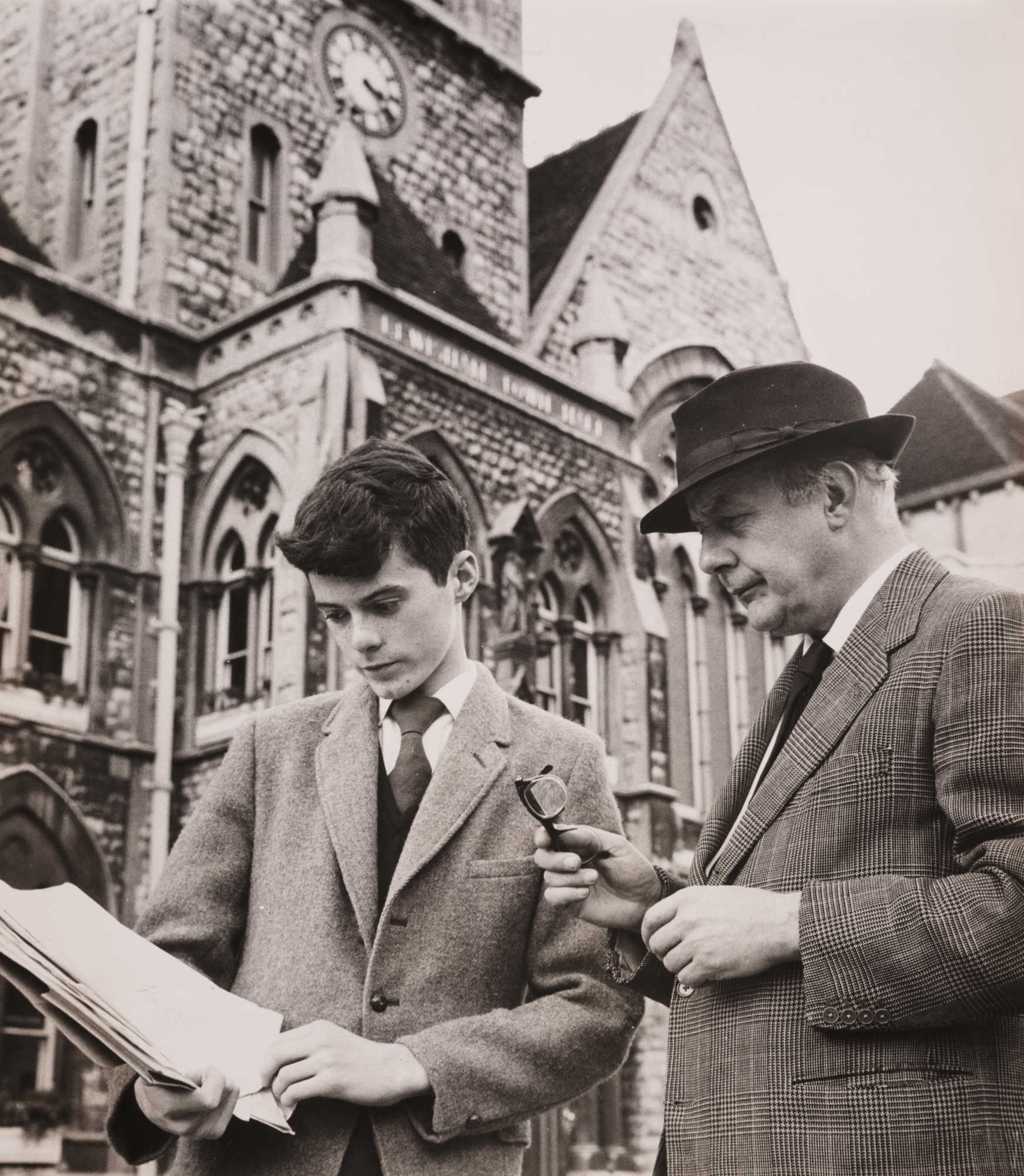 Sir John Betjeman (1906-1984) was an English poet, writer and broadcaster. He became poet laureate in 1972 and was a popular figure on British television in the 1960s and 1970s. Betjeman was a founding member of the Victorian Society, a charity which supports the research and preservation of Victorian architecture. William Norton, who campaigned to save Lewisham Town Hall, is here showing Betjeman some of the signatures on his petition. The first Town Hall was built in 1875 and enlarged in 1901.